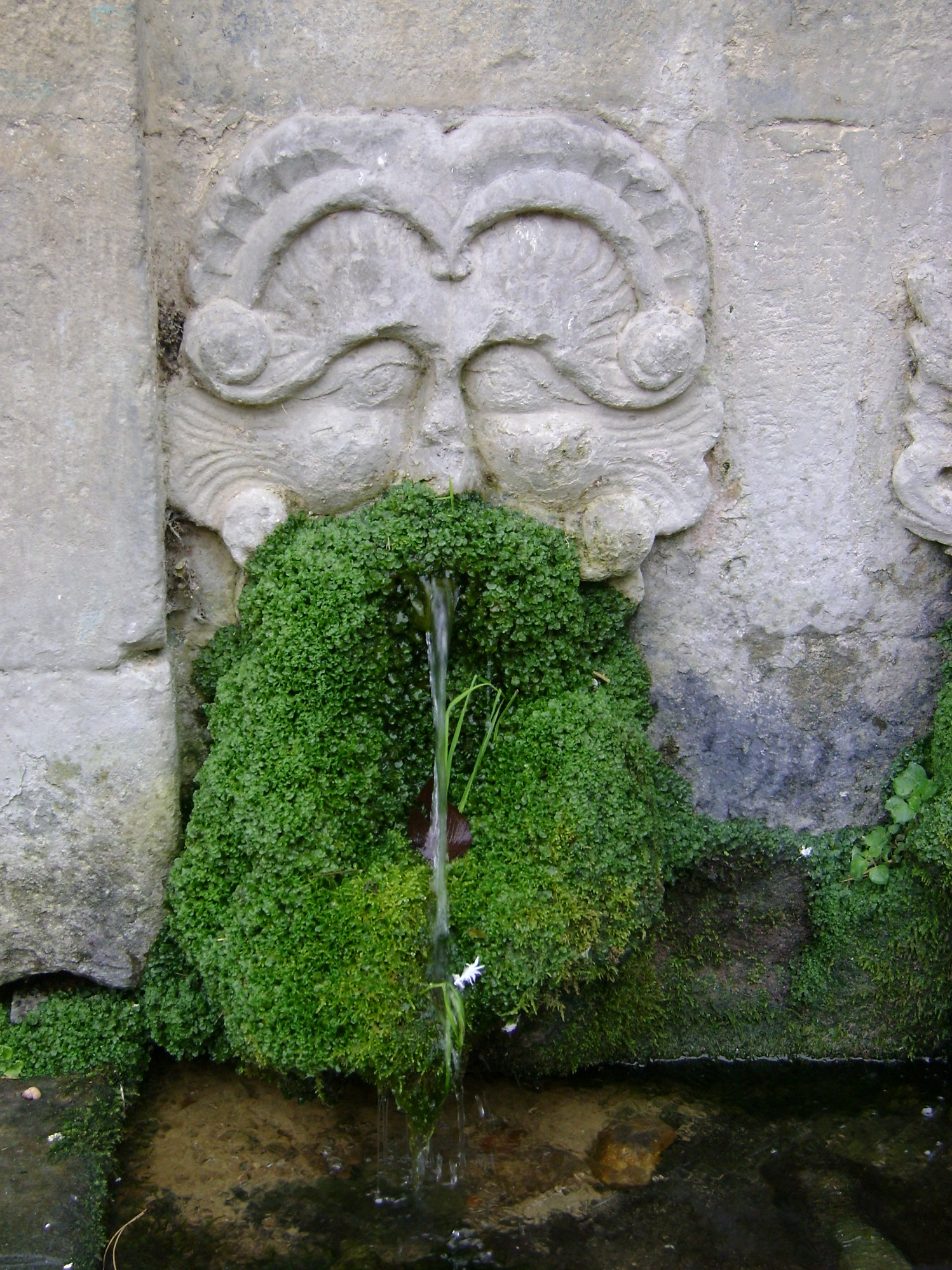 The bas-relief of a head in the Borgo's fountain , Lanciano, province of Chieti, Abruzzo